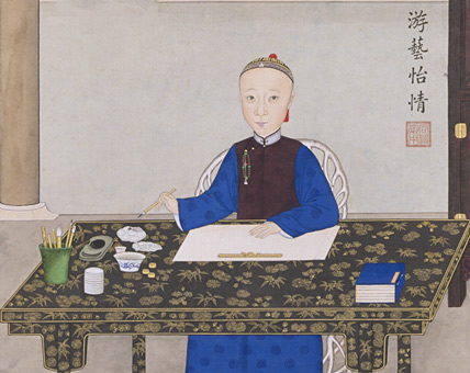 Qing Emperor Tongzhi writing